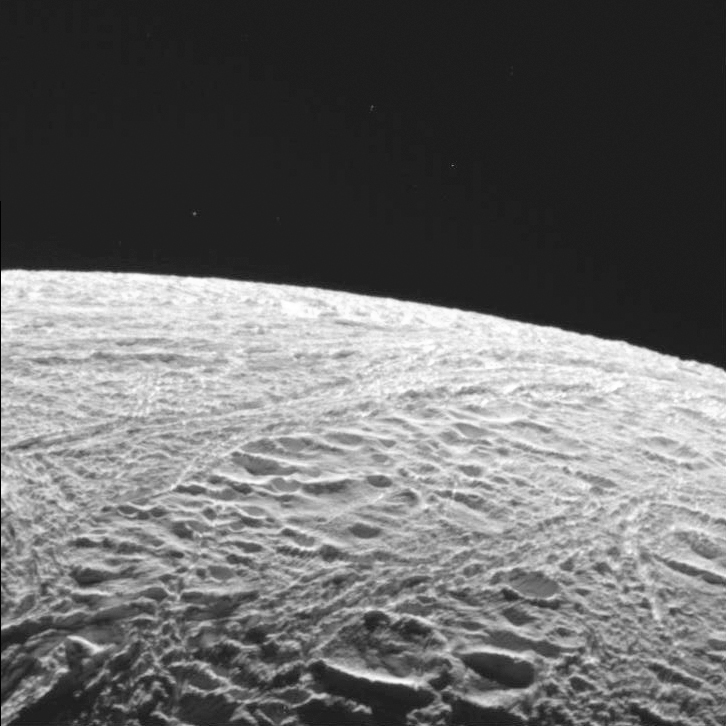 Seems like a chain of craters in the center Courtesy NASA/JPL-Caltech